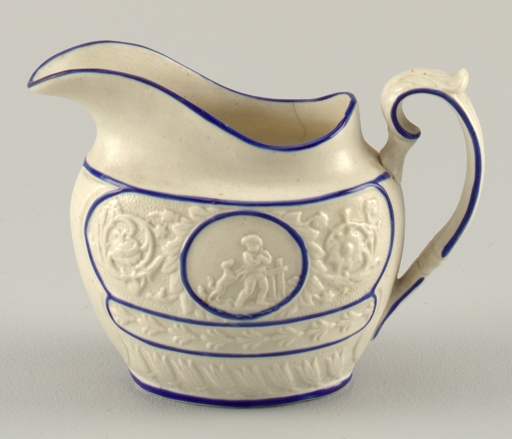 Bowl pitcher with floral relief decoration and a medallion of a boy with dog. Outlines in blue.